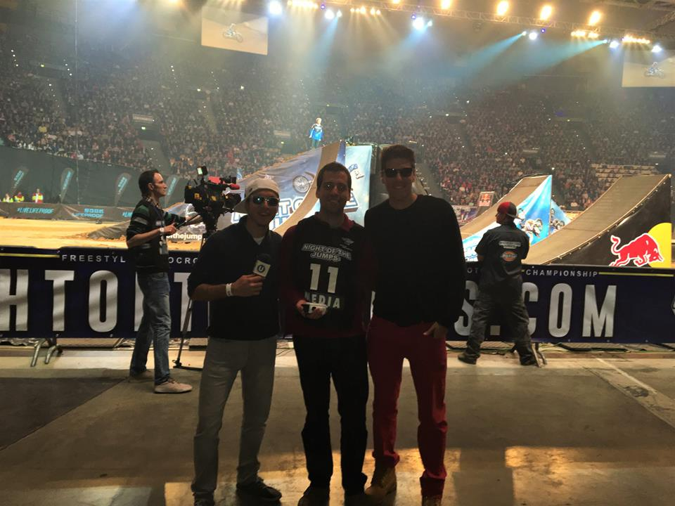 Ring Rajen in Night of The Jumps